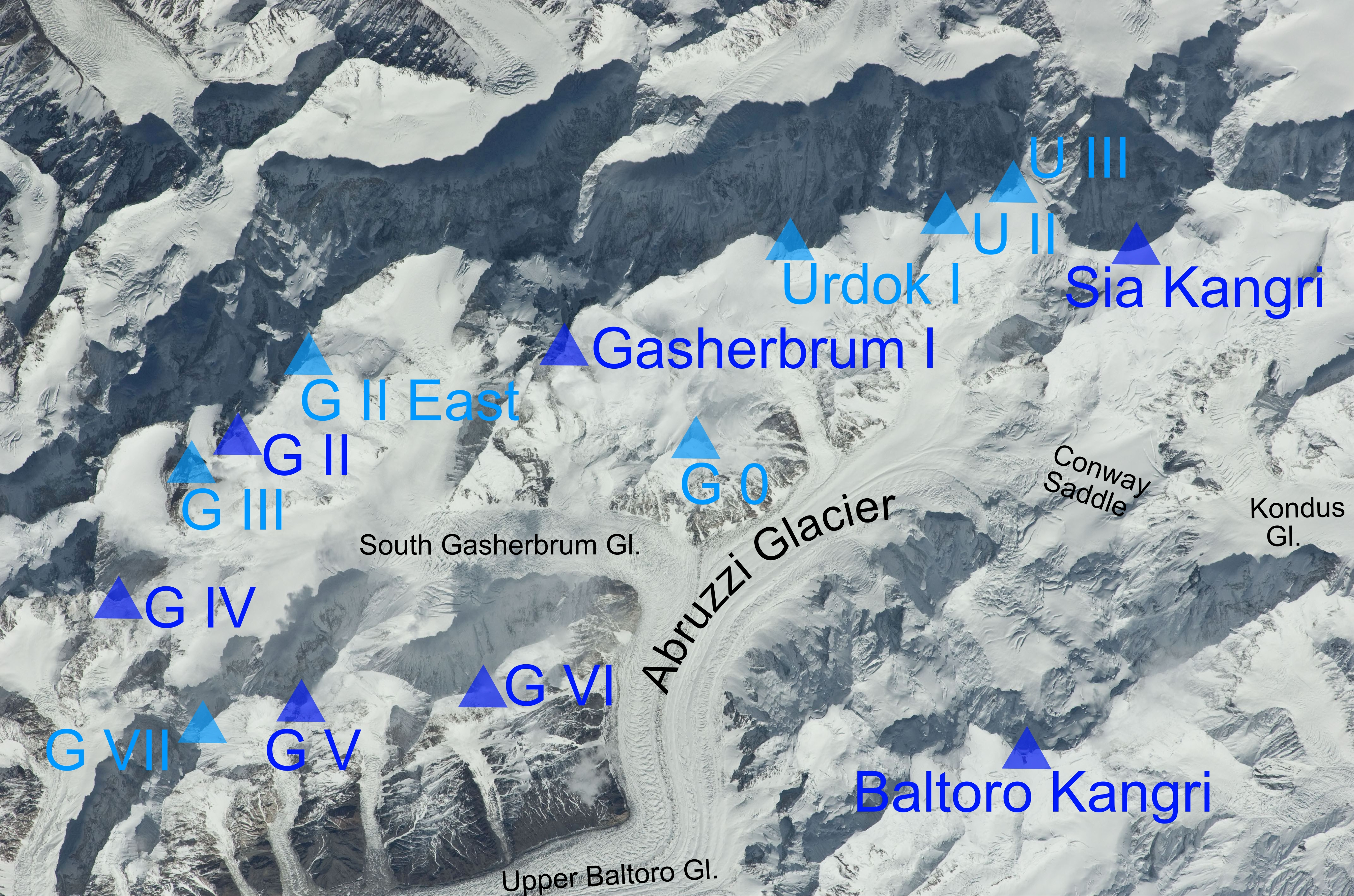 Gasherbrum Group with Gasherbrum I in the center. Gasherbrum II-VII on the left, Sia Kangri (top) and Baltoro Kangri (bottom) on the right. Main summits are marked in dark blue, subsidiary summits are marked in light-blue.